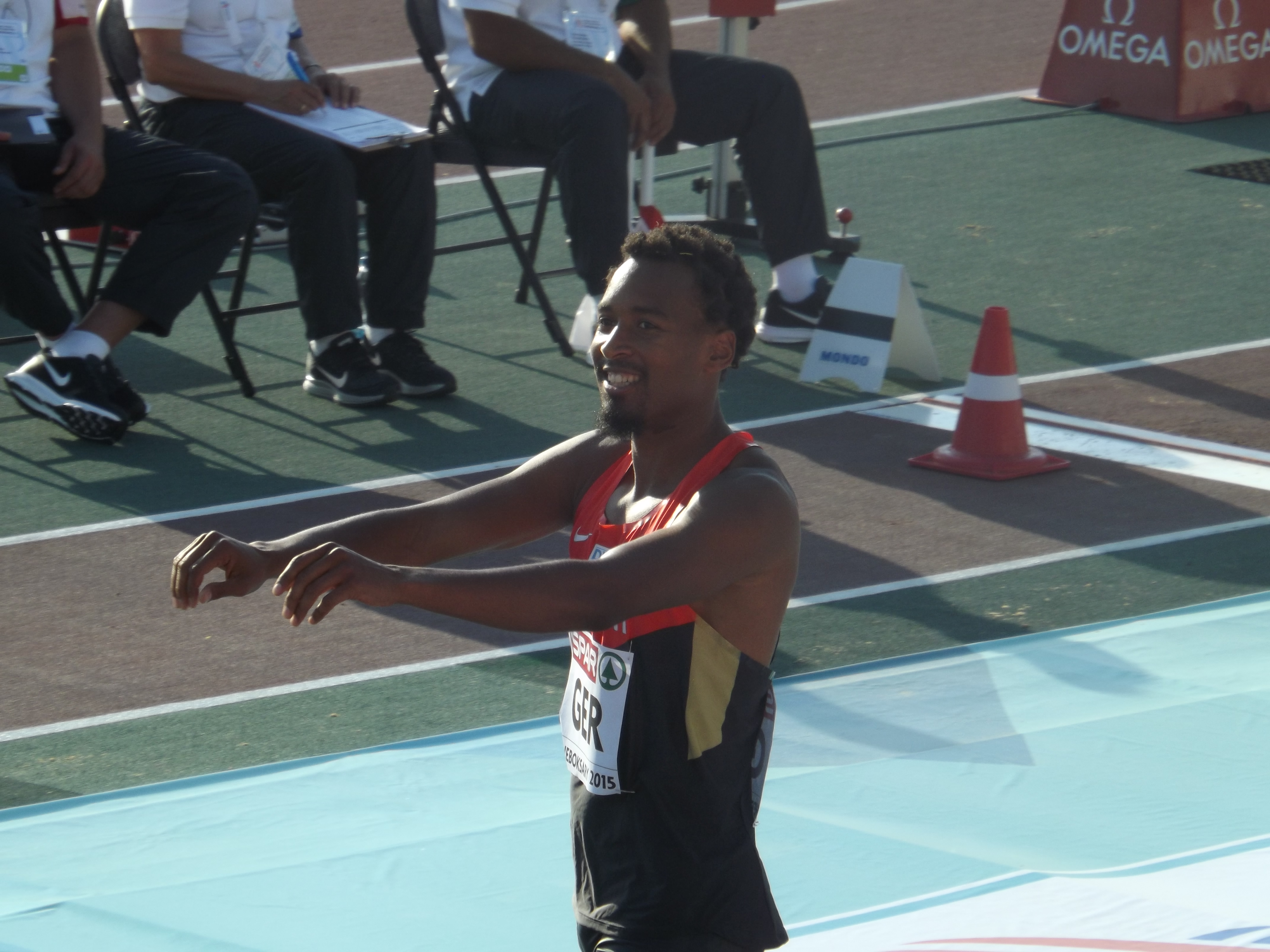 German long jumper Alyn Camara during 2015 European Team Champioships